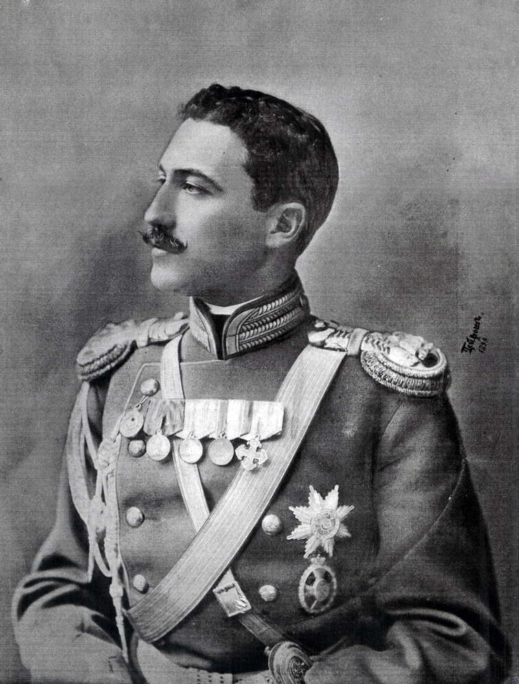 Prince Ivan Ratiev, a Georgian nobleman and an officer of the Imperial Russian Army. (pre-1917 photo)